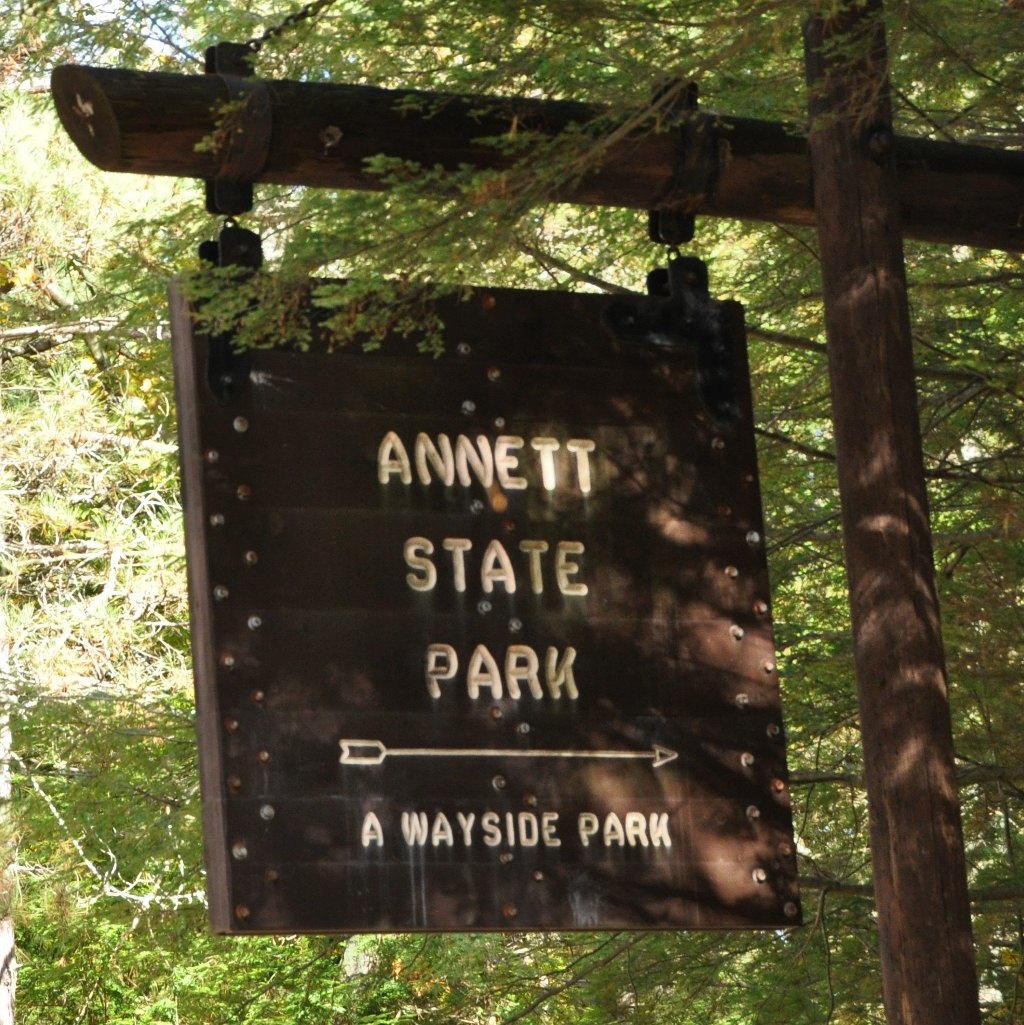 Sign at the entrance to Annett State Park in Rindge, New Hampshire.